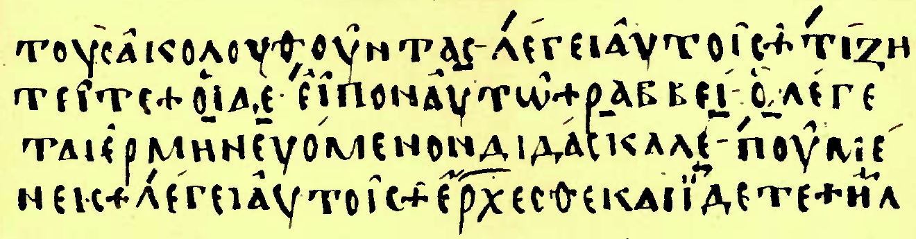 Codex Seidelianus II, manuscript of the New Testament, H/013 (Gregory-Aland), Scriveners facsimile with text of John 1:38-40